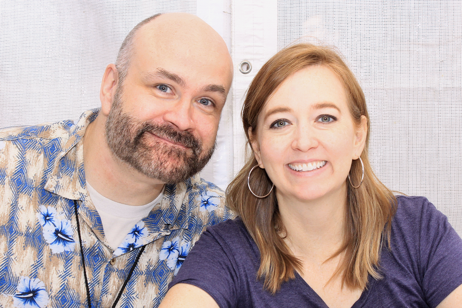 Shannon and Dean Hale at the 2016 Texas Book Festival.